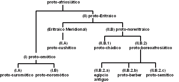 Description: A map showing the expansion of Afro-asiatic languages, based of Ehret description.